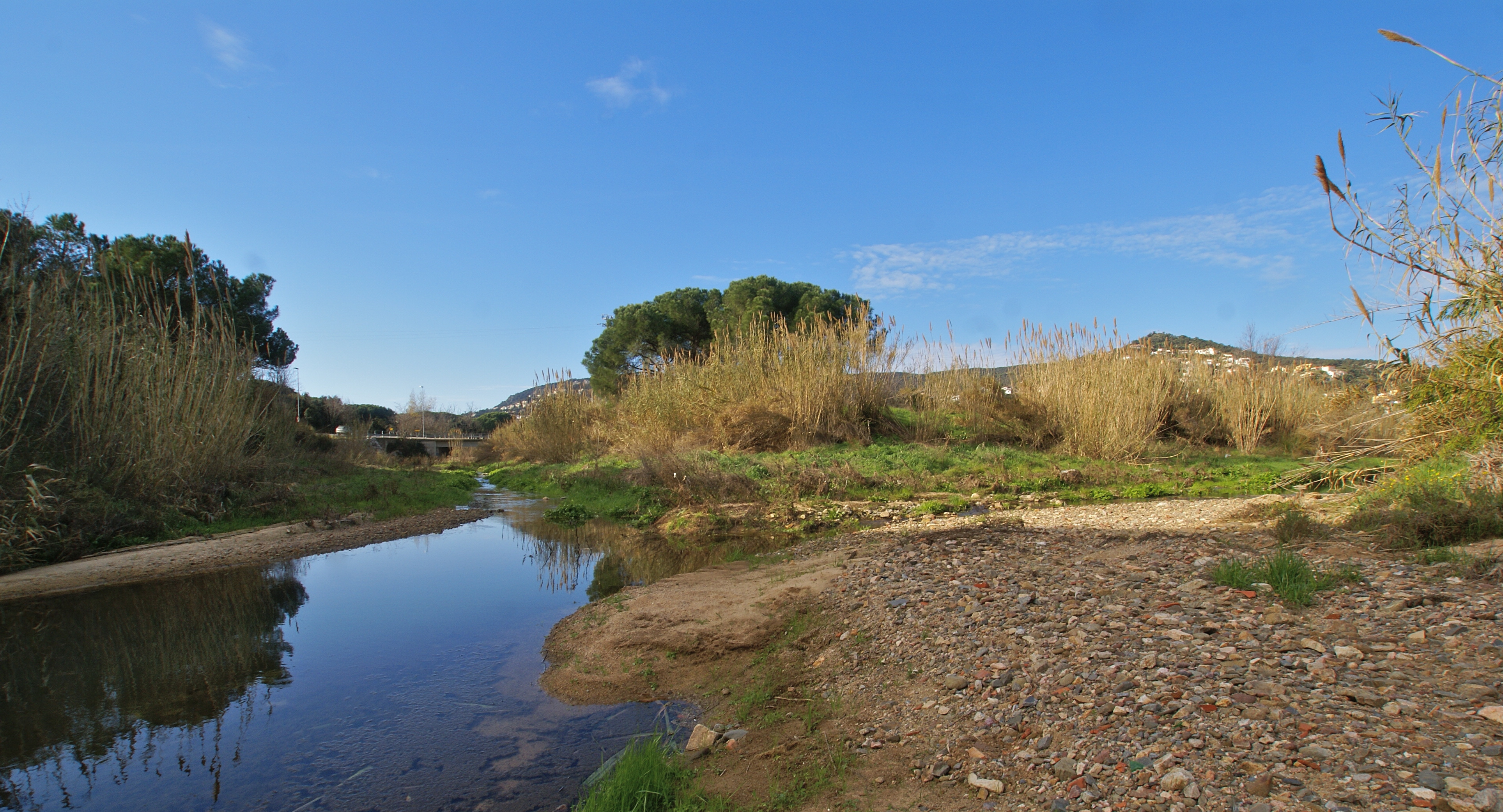 Calonge, Catalonia: Confluence of the Rifred and the Riera dels Molins into the Riera de Calonge